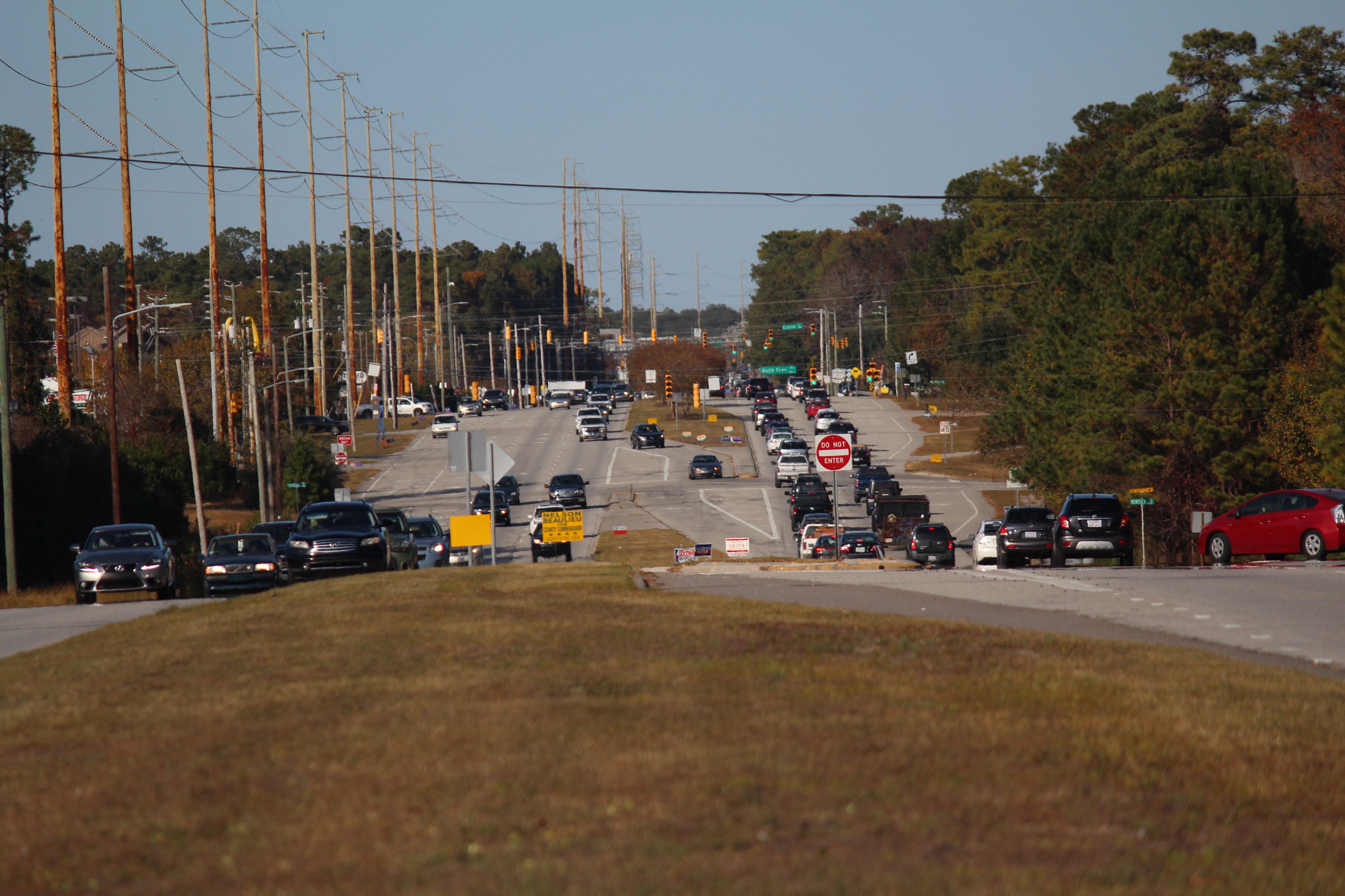 NC Highway 132 in the South College Rd portion near the intersection with Shipyard Blvd. Facing North.